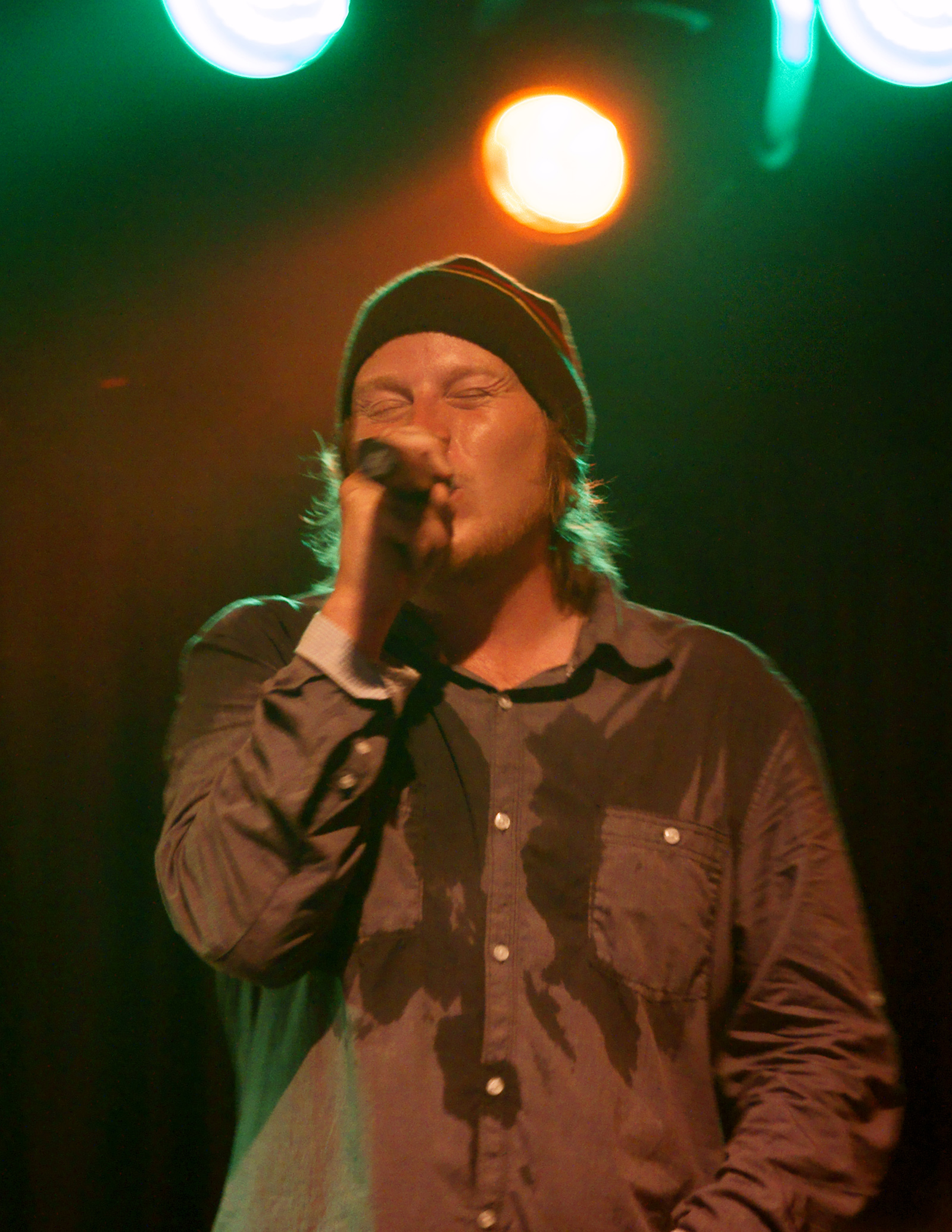 Raappana performing at Bar Kino, Pori, Finland.